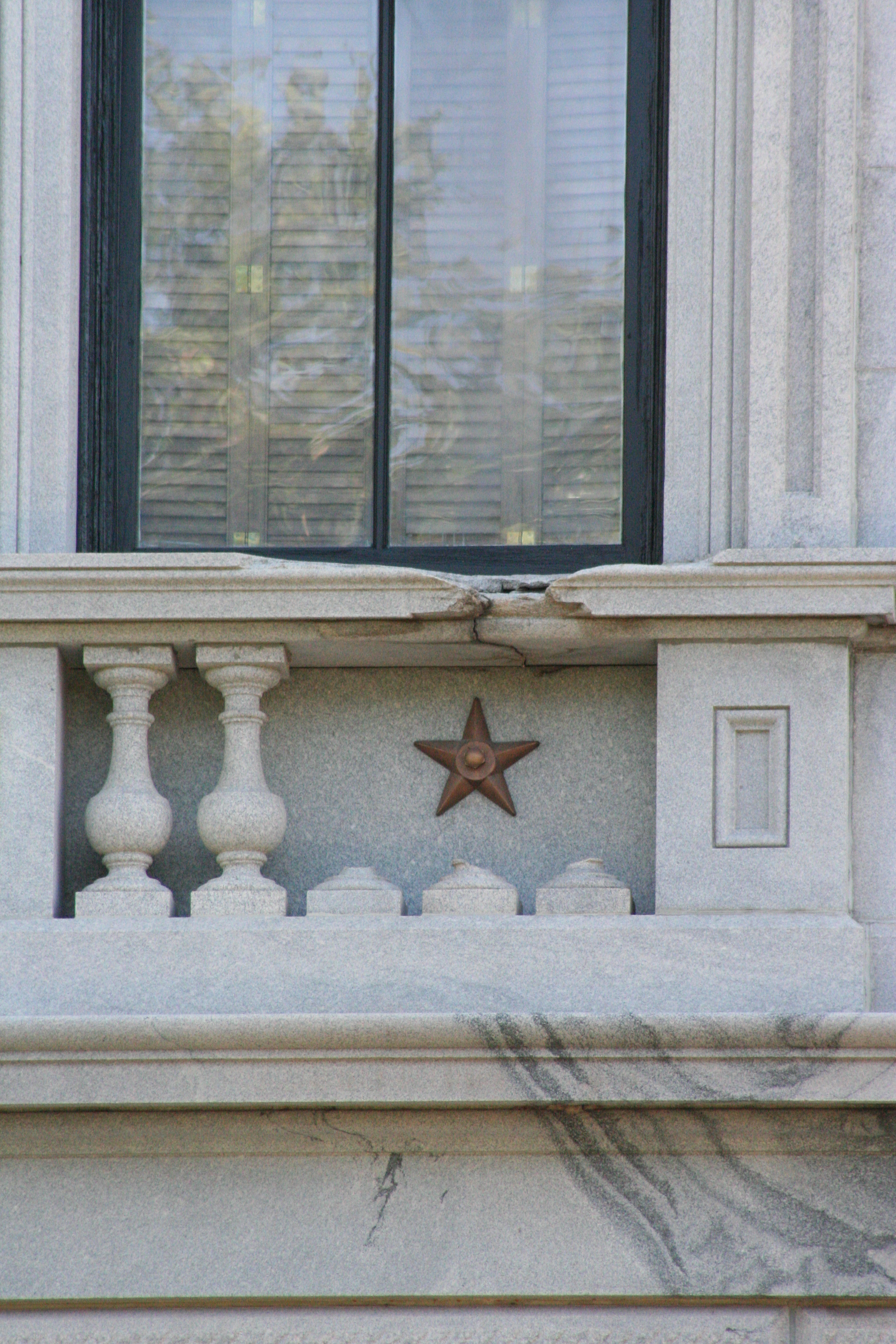 One of six Bronze Stars on the facade of the South Carolina State House.